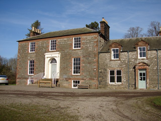 Kilquhanity(1820)is a Classical mansion built by Walter Newall. A ‘free school’ from 1940 to 1997 – it has been refurbished and due to be fully open again as a school in 2009.